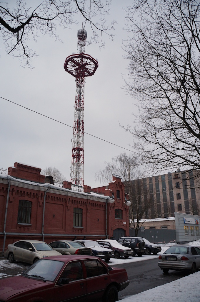 Radio Tower radiotelephone "Altai" (St. Petersburg)